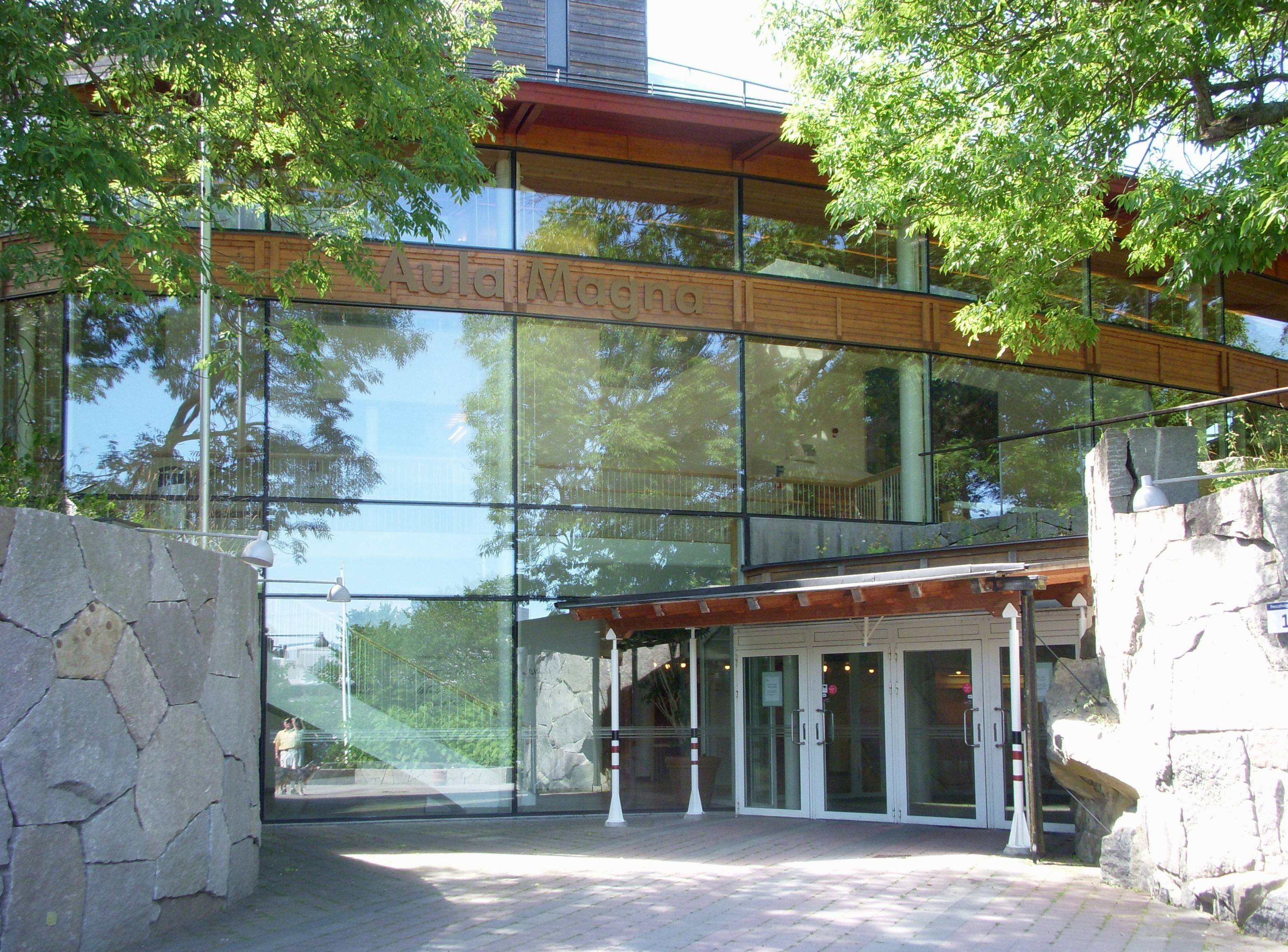 Northern entrance of Aula Magna, Stockholm University